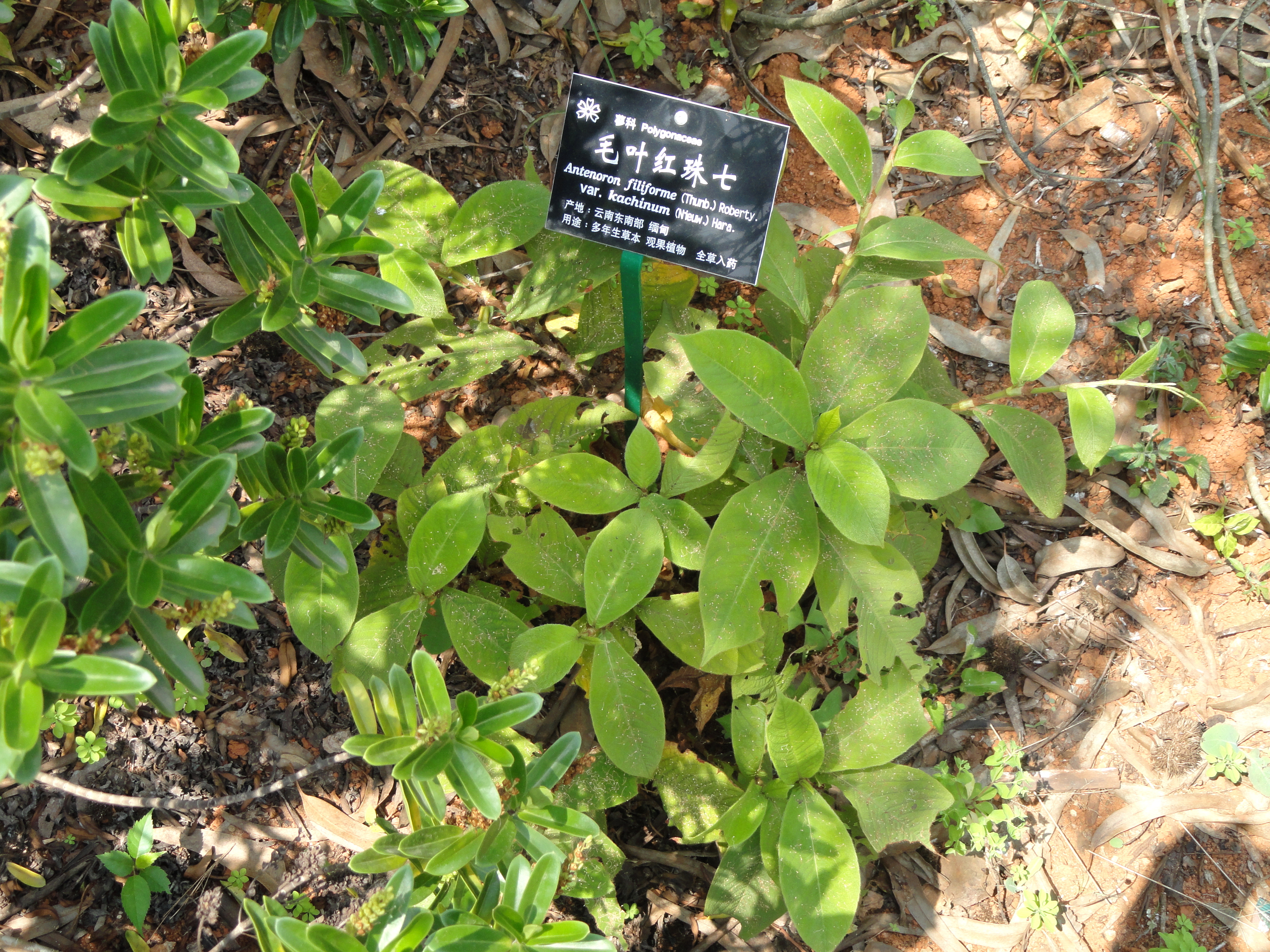 Plant specimen in the Kunming Botanical Garden, Kunming, Yunnan, China.